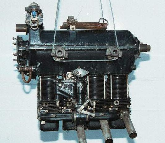 Walter Mikron II - engine